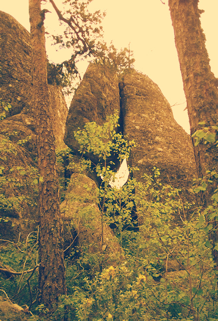 Ali alan Rhodopa BG